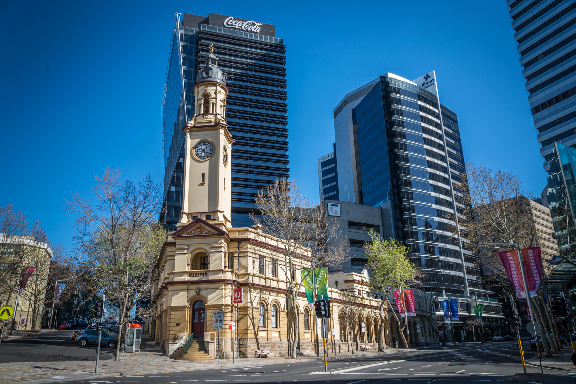 North Sydney Post Office 2